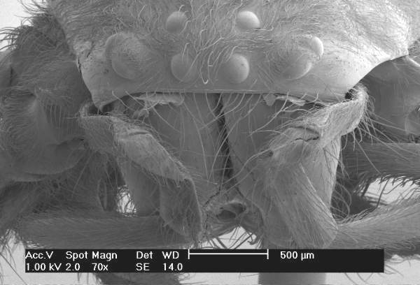 Spider's chelicerae (But see dissenting opinion on talk page.)